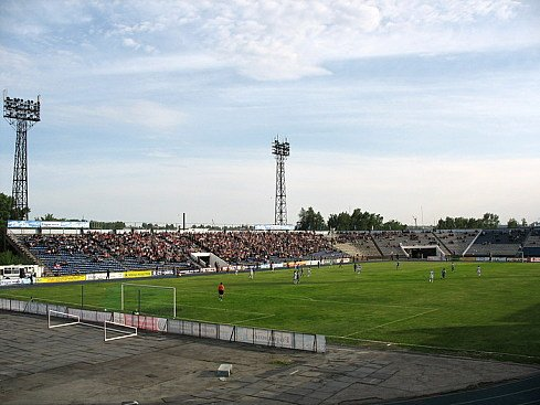 Dinamo stadium (Barnaul).